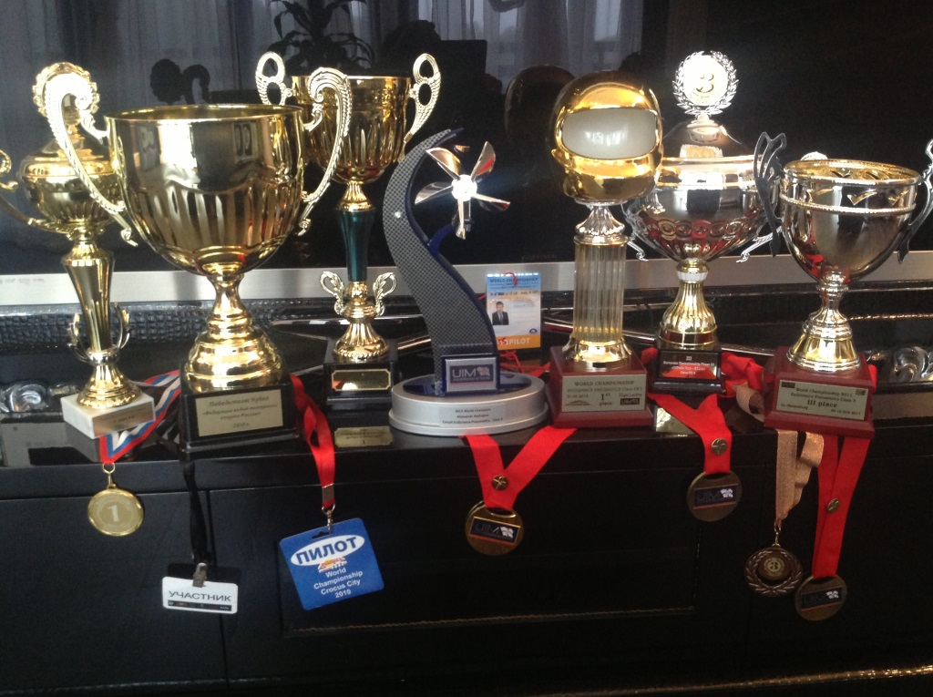 Alexander Kashapov